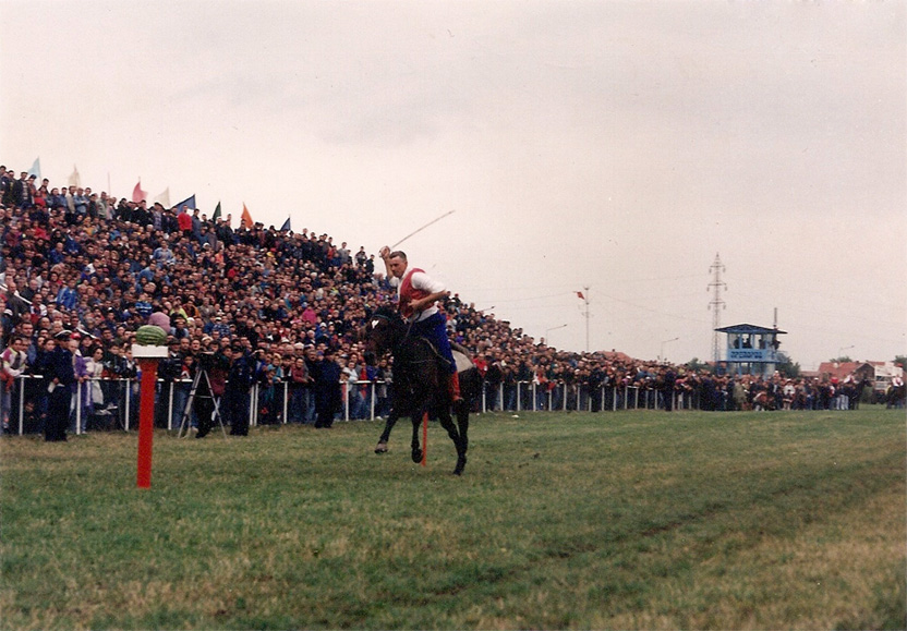 Nebojša “Belan” Dozet, three-time knight of the Ljubičevo Equestrian Games (1996, 2000 and 2001).